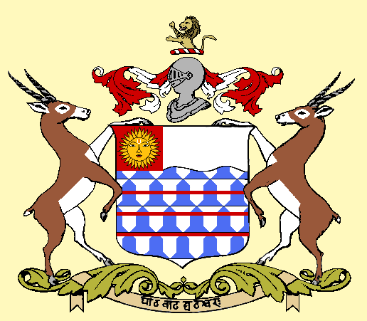 Barwani State coat of arms This work is in the public domain in India because its term of copyright has expired. The Indian Copyright Act applies in India, to works first published in India. According to The Indian Copyright Act, 1957 (Chapter V Section 25), Anonymous works, photographs, cinematographic works, sound recordings, government works, and works of corporate authorship or of international organizations enter the public domain 60 years after the date on which they were first published, counted from the beginning of the following calendar year (ie. as of 2016, works published prior to 1 January 1956 are considered public domain). Posthumous works (other than those above) enter the public domain after 60 years from publication date. Any other kind of work enters the public domain 60 years after the author's death. Text of laws, judicial opinions, and other government reports are free from copyright. Photographs created before 1958 are in the public domain 50 years after creation, as per the Copyright Act 1911. This file may not be in the public domain outside India. The creator and year of publication are essential information and must be provided. See Wikipedia:Public domain and Wikipedia:Copyrights for more details. This image shows a flag, a coat of arms, a seal or some other official insignia. The use of such symbols is restricted in many countries. These restrictions are independent of the copyright status.